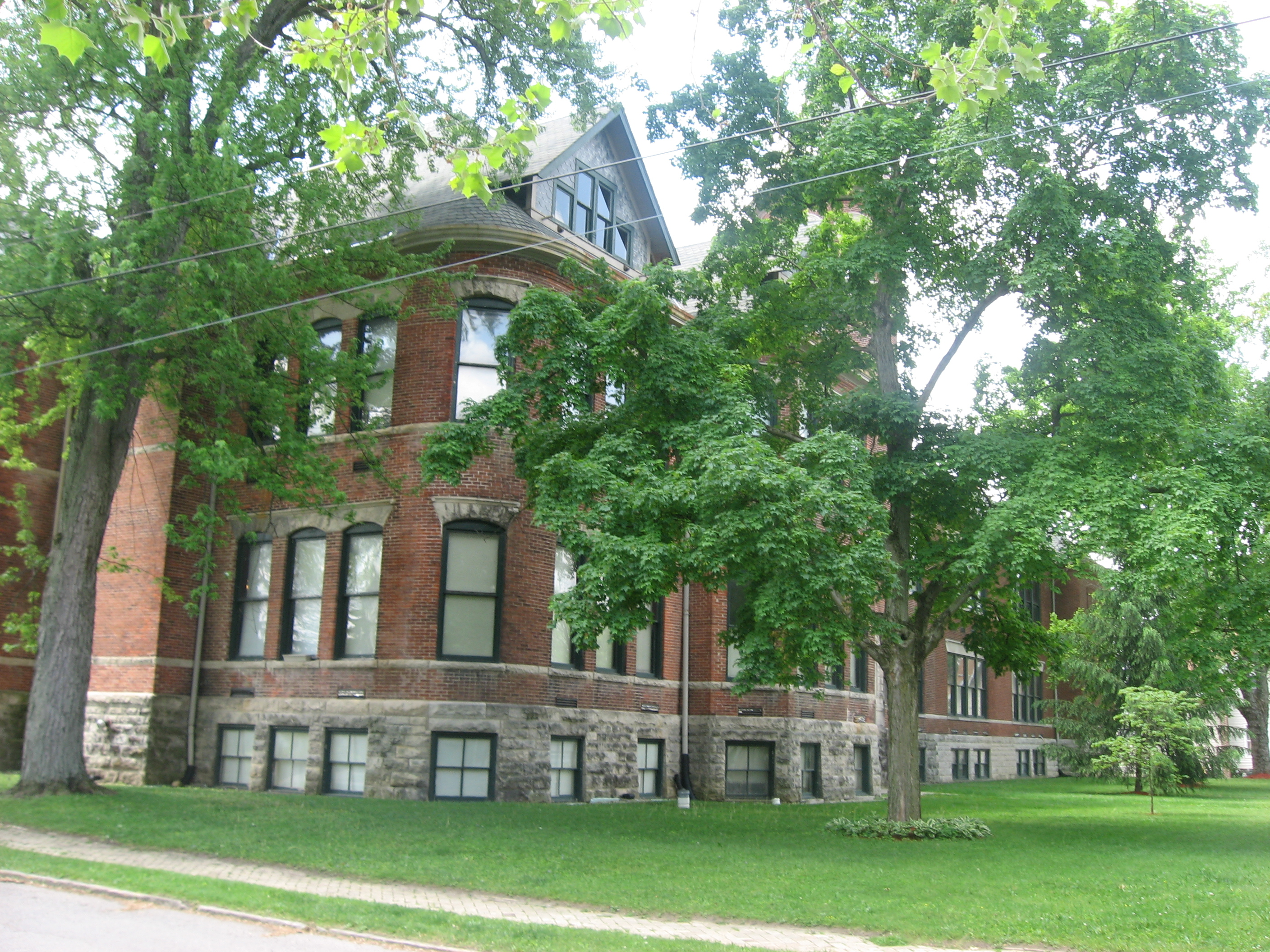 Front of the William Street School, located at 521 W. William Street in Huntington, Indiana, United States. Built in 1895, it is listed on the National Register of Historic Places, and it is part of a Register-listed historic district, the Drover Town Historic District.